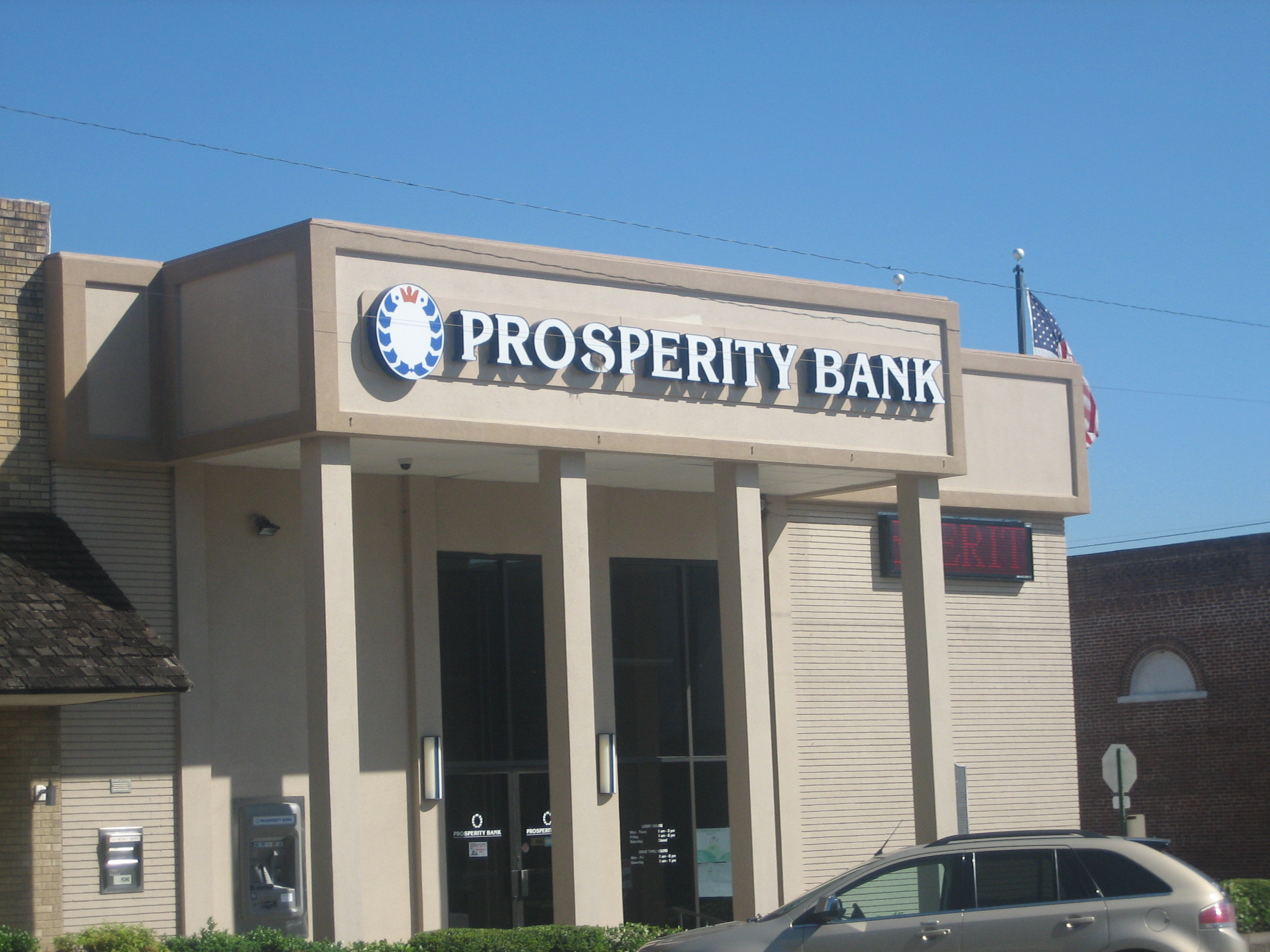 I took photo on May 19, 2009.